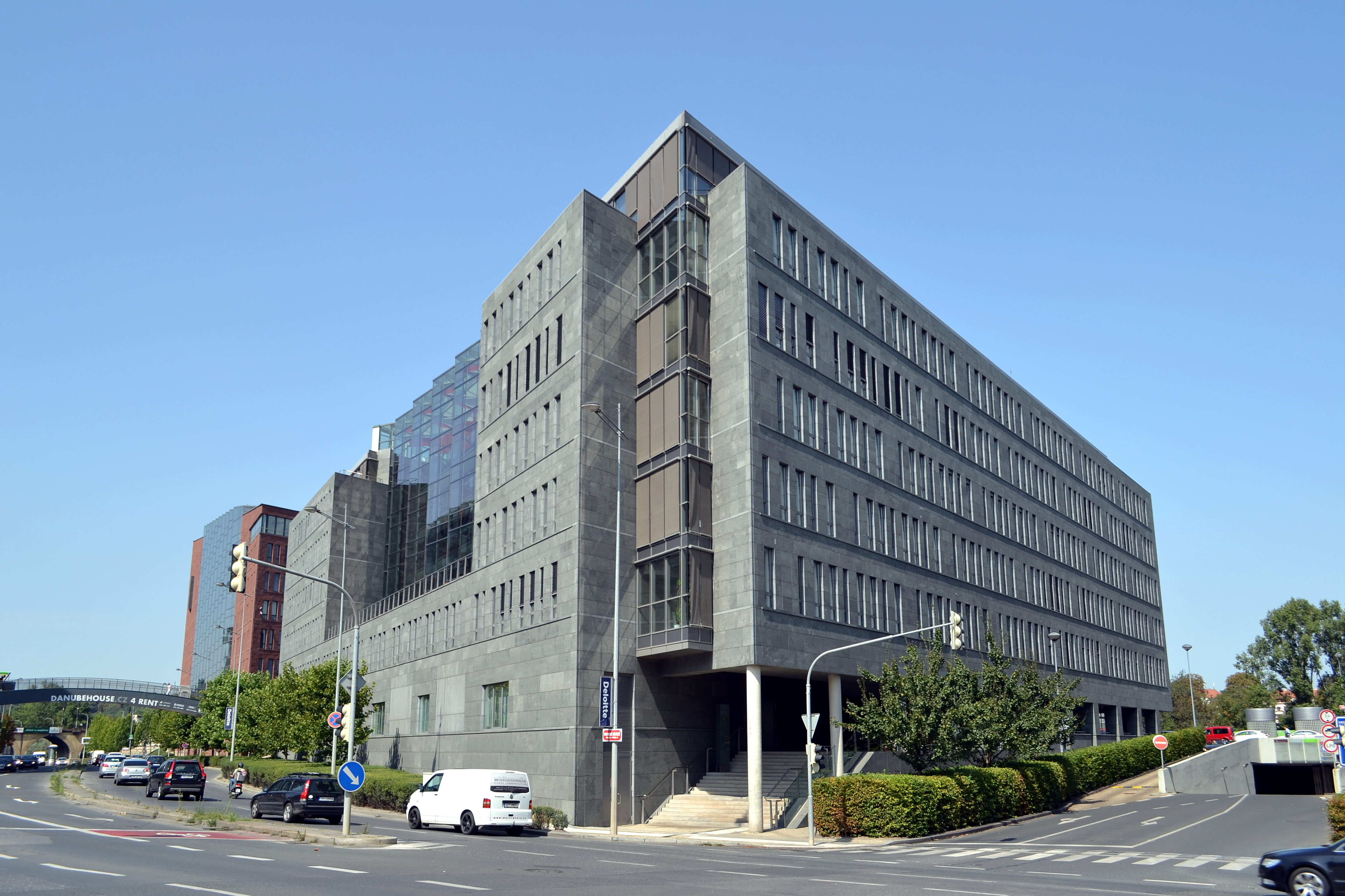 Office building "Nile House", Rohanské nábřeží street, Karlín, Prague 8, Czech Republic.